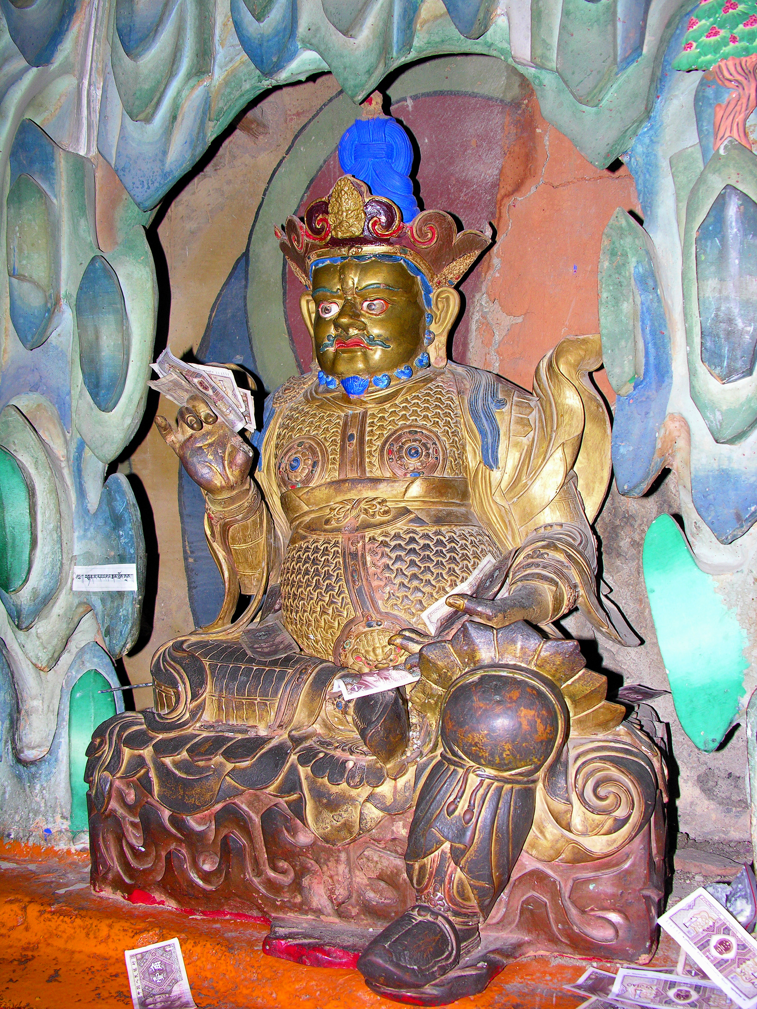 I think this is Trisong Detsen, 38th King of Tibet who helped bring Buddhism to the country. Note there is offerings of money laying around him and in his hand. Baiju Monastery. Gyangtse, Tibet